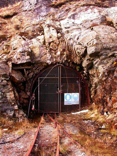 Cononish Gold Mine on Beinn Beinn Chùirn near Tyndrum.